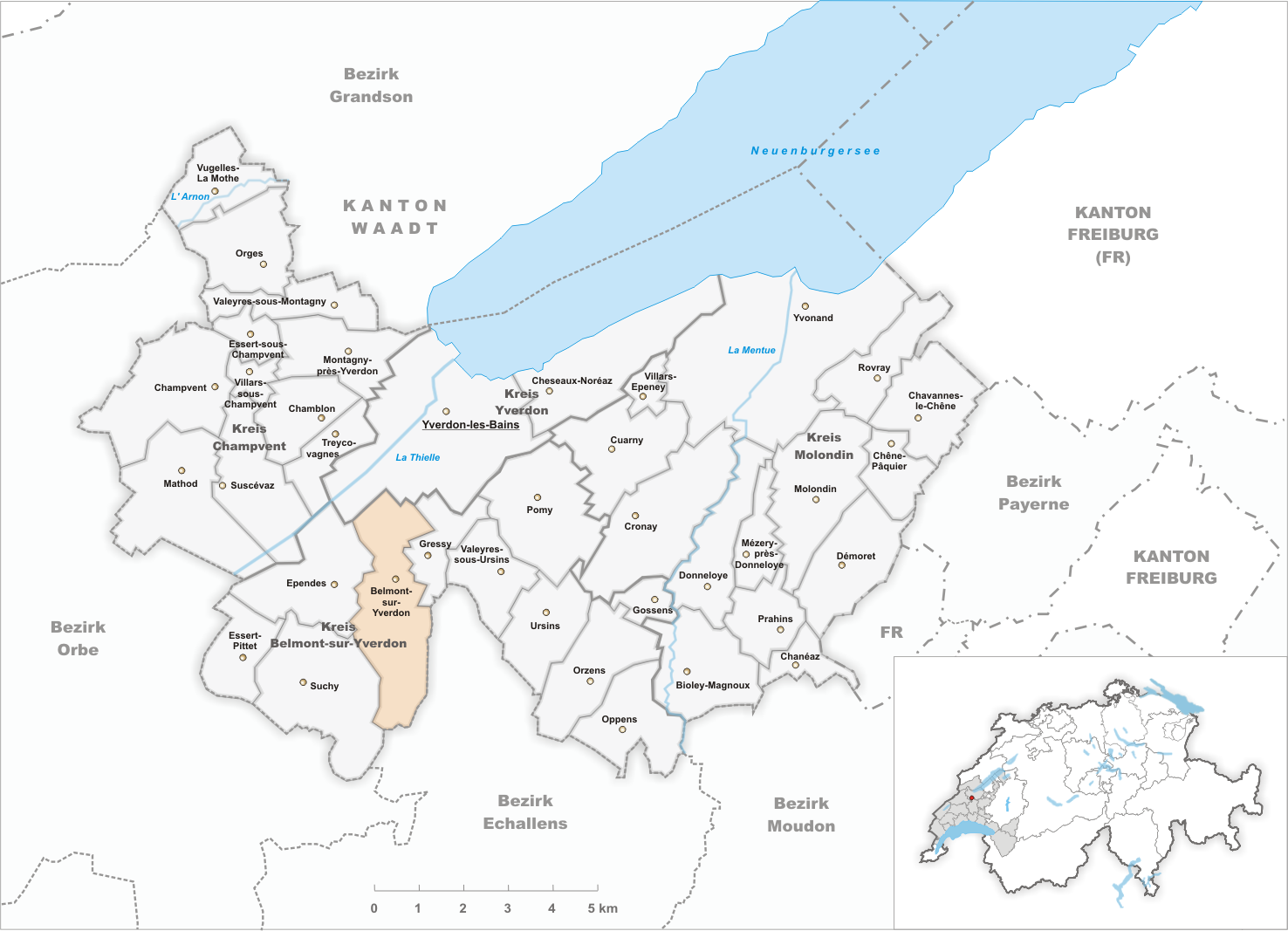 Municipality Belmont-sur-Yverdon